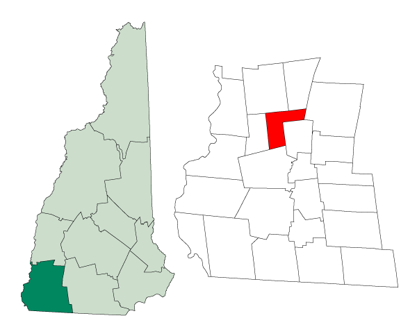 Map of a municipality in Cheshire County, New Hampshire